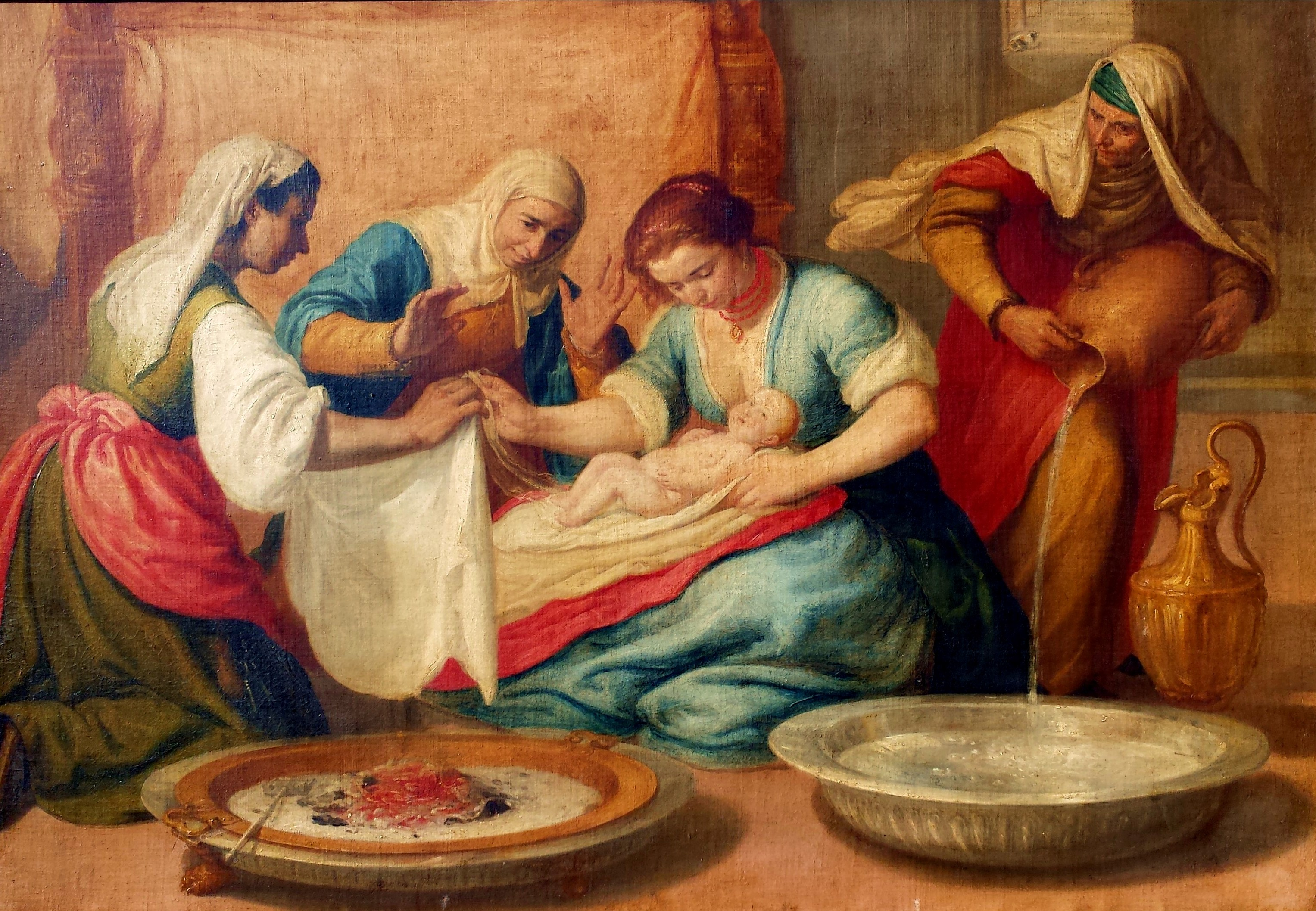 nativity of mary, oil on canvas, 101x142cm, Based on canvas and paint analyses, this picture was painted in the 17th century. An actual birth is portrayed, with a newborn beholding the light of the world for the first time; the rays of sunshine all but dissolve the child in an impressionistic manner. The whole picture is painted in bright colours. The location: Inside a convent, with a view and a Franciscan nun (a novice?) in service hurrying past. The older woman in the middle appears to be the Abbess; on the right a richly-jewelled woman from a noble house; on the left, the housekeeper with keys. If we associate the Abbess with Jeronima de la Fuente, the picture can be categorised both in terms of time and place: For the latter as the Convento de Santa Isabel de los Reyes in Toledo - perhaps in memory of Jeronima - , where charitable help was offered in particular to newborns and small children, where even Queen Margaret got involved in helping. Or as the Franciscan convent in Sevilla, where Jeronima had a wait for departure to Manila, where Velazquez painted her portrait. The Clarissan convent in Manila, founded by Jeronima, which only accepted young women of Spanish descent and from good families, could also be a possibility; locals were only allowed to help there. However, the utensils in the foreground are typically Sevillian, in particular the Brasero encendido (brazier). The markedly matriarchal character is striking: only women are portrayed, and in the addition, for the viewer, all at one height; social differences are set aside, at the moment of the birth all help equally. The four elements can be found tucked away: fire (burning coals, heat), water (bath, cleaning, baptism), air (fluttering veils), earth (earthly birth). In the foreground, a realistic birth that does, however, record the scene in that moment impressionistically. In the Spain of the 17th century, there was only one single artist who could have mastered such a complex presentation.